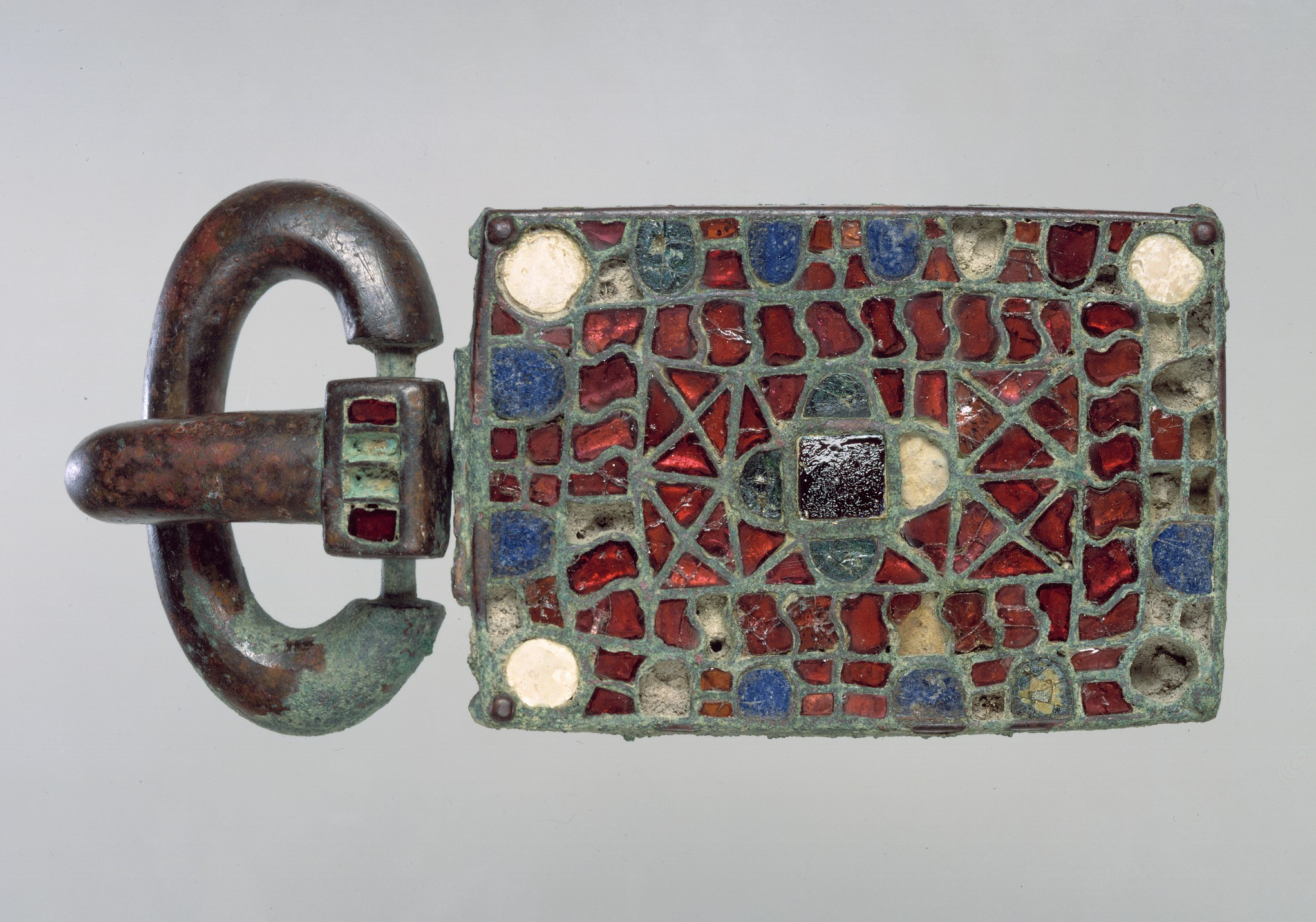 Visigothic; Buckle and plate; Metalwork-Copper